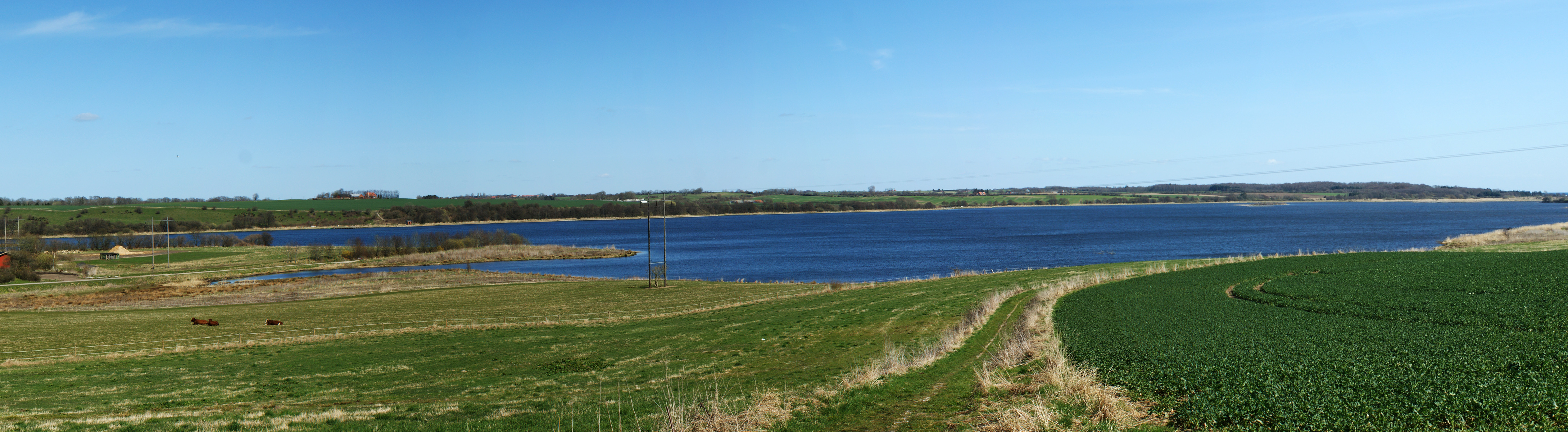 Lake Slivsø near Haderslev Denmark